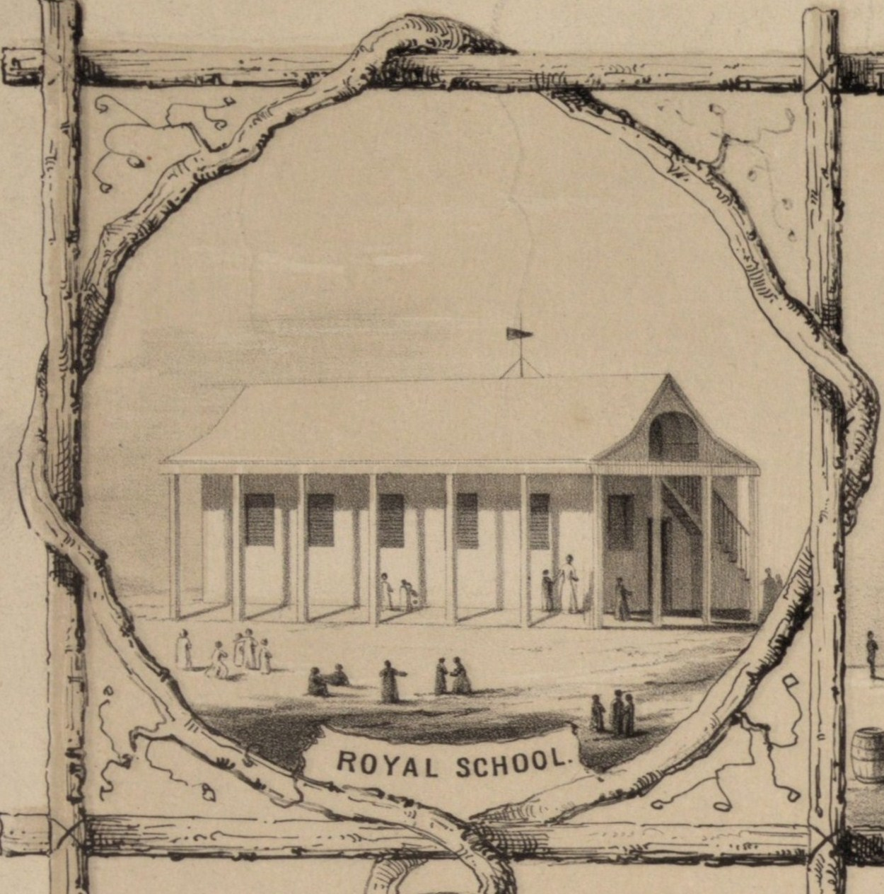 The Royal School was a historic school founded in 1839 in Honolulu. Its original name was Chiefs' Children's School. This drawing is of the school that followed the Chiefs' Children's School and had no royal pupils since most had either graduated or were attending other schools by 1848.